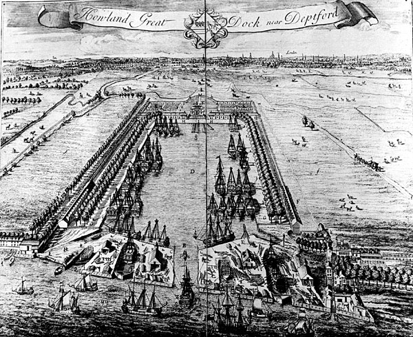 Howland Great Wet Dock, Rotherhithe, 1717. From Supplément due Nouveau Théatre de la Grande Bretagne, T. Badslade, 1728.